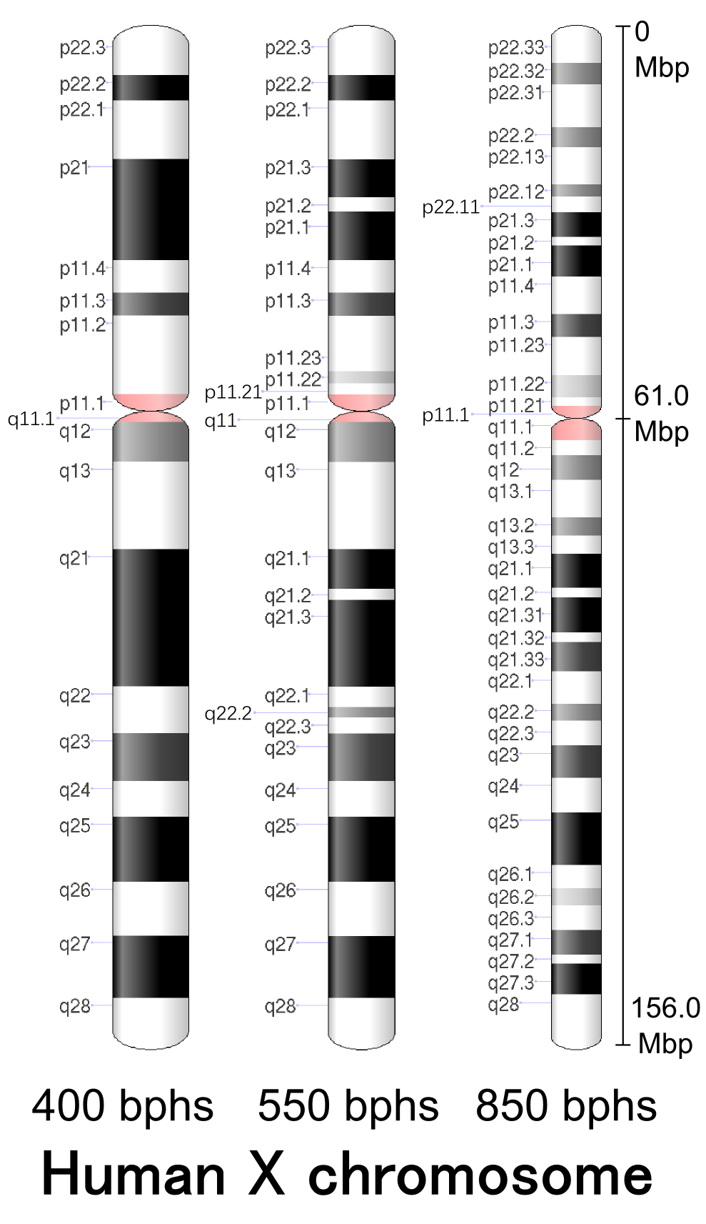 Ideograms of G-band pattern of human X chromosome in three different resolutions (400, 550 and 850 bphs, bands per haploid set). Different resolutions are corresponding to different band patterns observed through mitotic phase (about relation between banding resolution and mitotic phase, see, for example, Fig.3 in W Sethakulvichaia (2012)). Legend: Black and gray is Giemsa positive. Red is centromere. Light blue is variable region. Dark blue is stalk. At the right, centromere position (center) and q arm terminus position (bottom), counted from p arm terminus (top) in Mbp (mega base pairs), are labeled. Physical length (sometimes referred as "absolute length") is not labeled. Because physical length of chromosomes vary while mitosis. (typical human chromosome physical length is in the order of from several micrometers to ten and several micrometers. See, for example, Category:Human chromosome images with scale bars.).